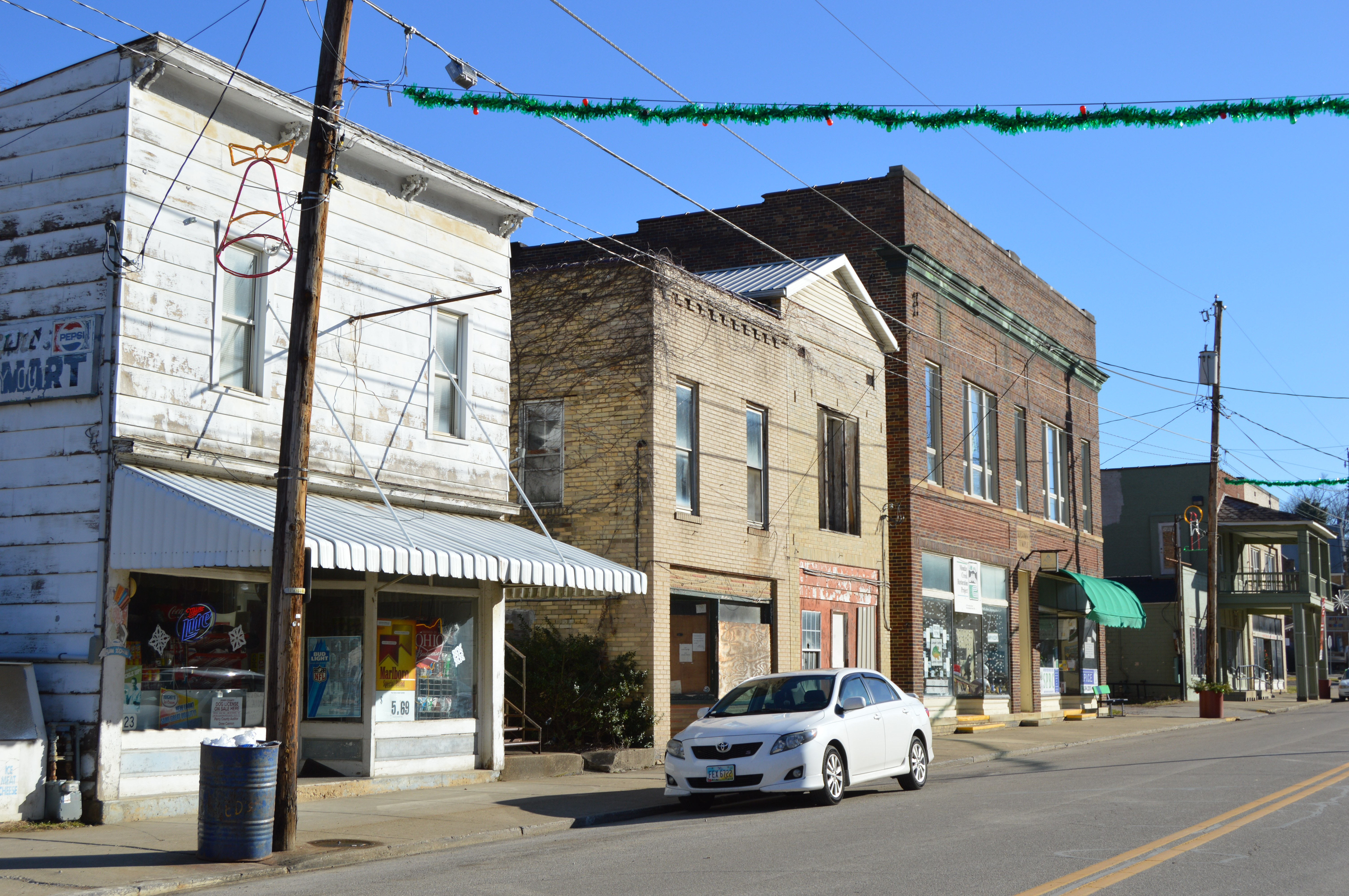 Commercial buildings on Main Street (State Route 93) west of Clark Street in downtown New Straitsville, Ohio, United States.